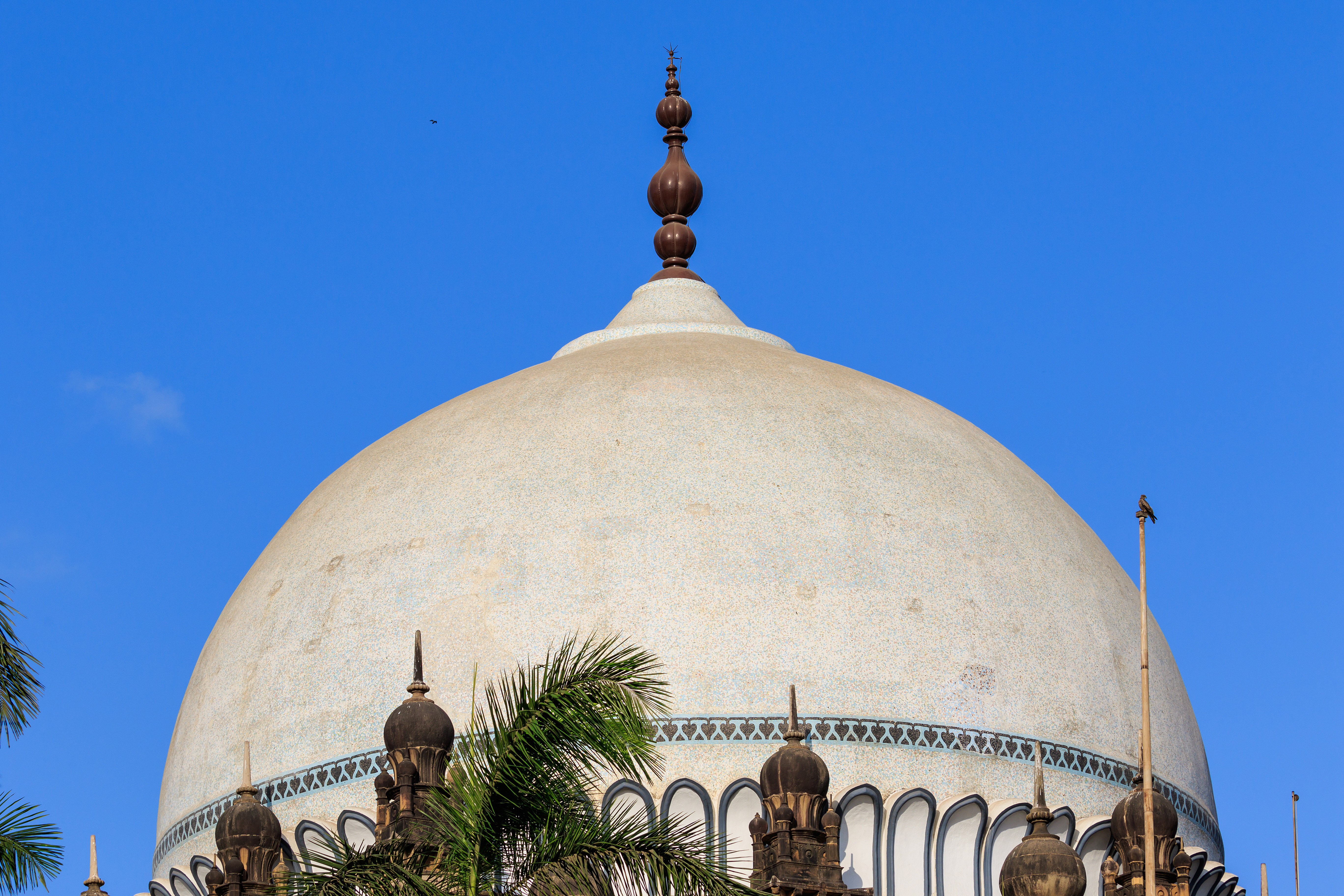 Dome of the Prince of Wales Museum building in Mumbai, India